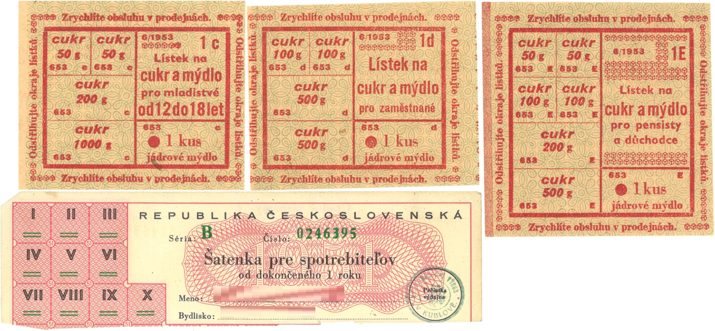 Ration stamp in Czechoslovakia after WW2